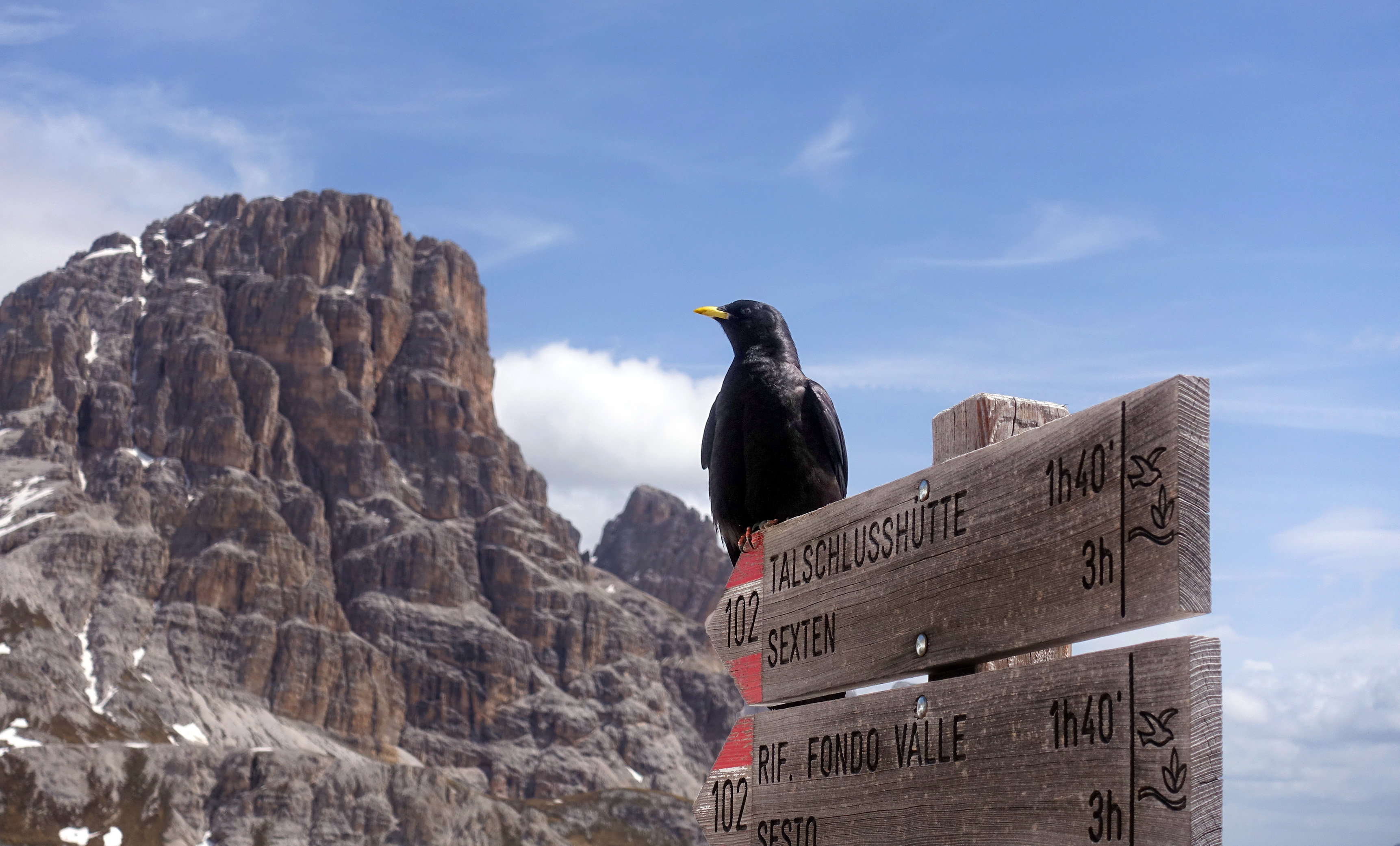 Alpine chough (Pyrrhocorax graculus) sitting on a trail sign near Rifugio Antion Locatelli, Italy.